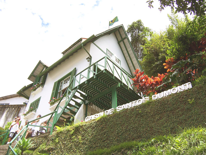 Former house of aviation pioneer Alberto Santos-Dumont (now a museum), located in Petrópolis.